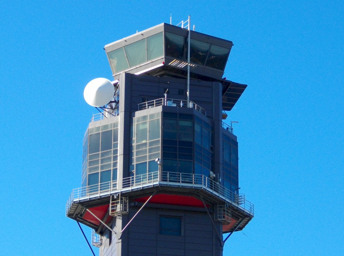 Old control tower of Narita International Airport